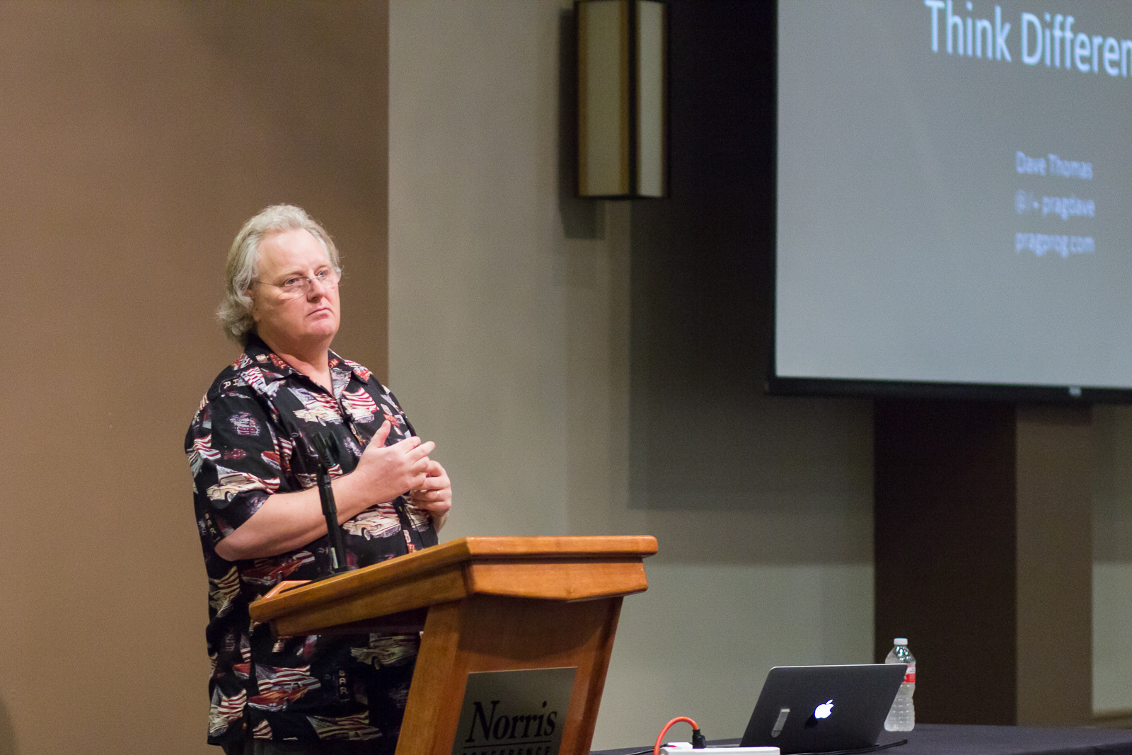 Date Thomas at the ElixirConf 2014